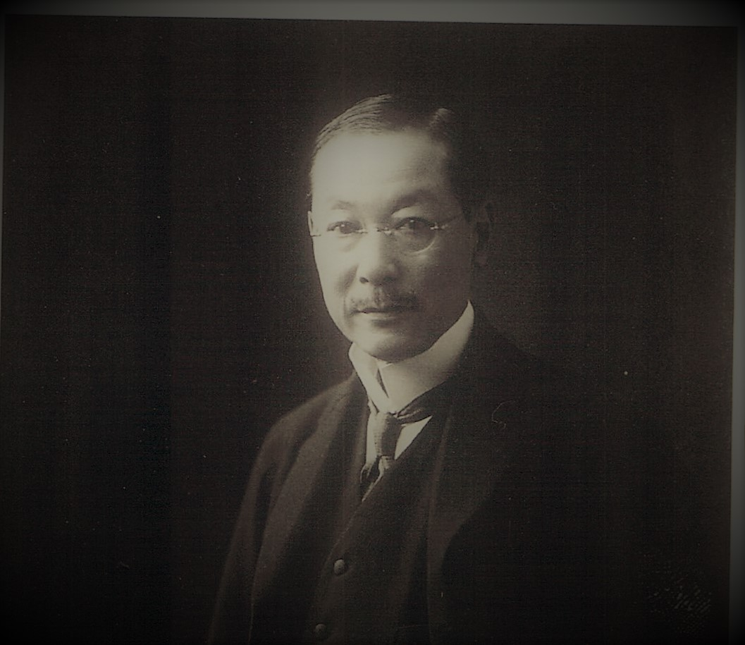 Takayama Masao (c.1871-1944), Japanese forensic scientist. In 1912, he developed the so-called Takayama (Hemochromogen) test to indicate the presence of blood that is still in use today.